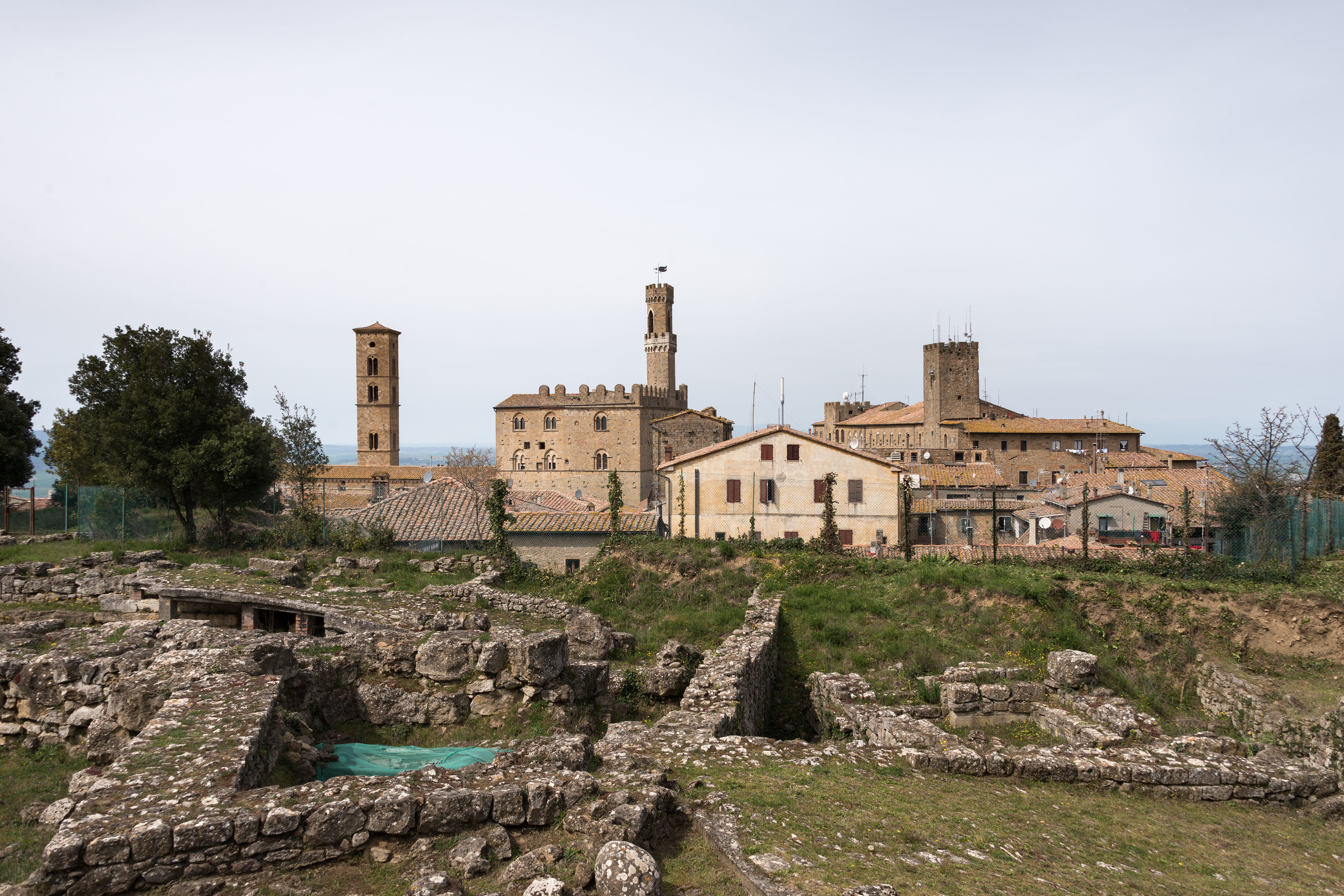 Etruscan Acropolis - Volterra, Pisa, Italy